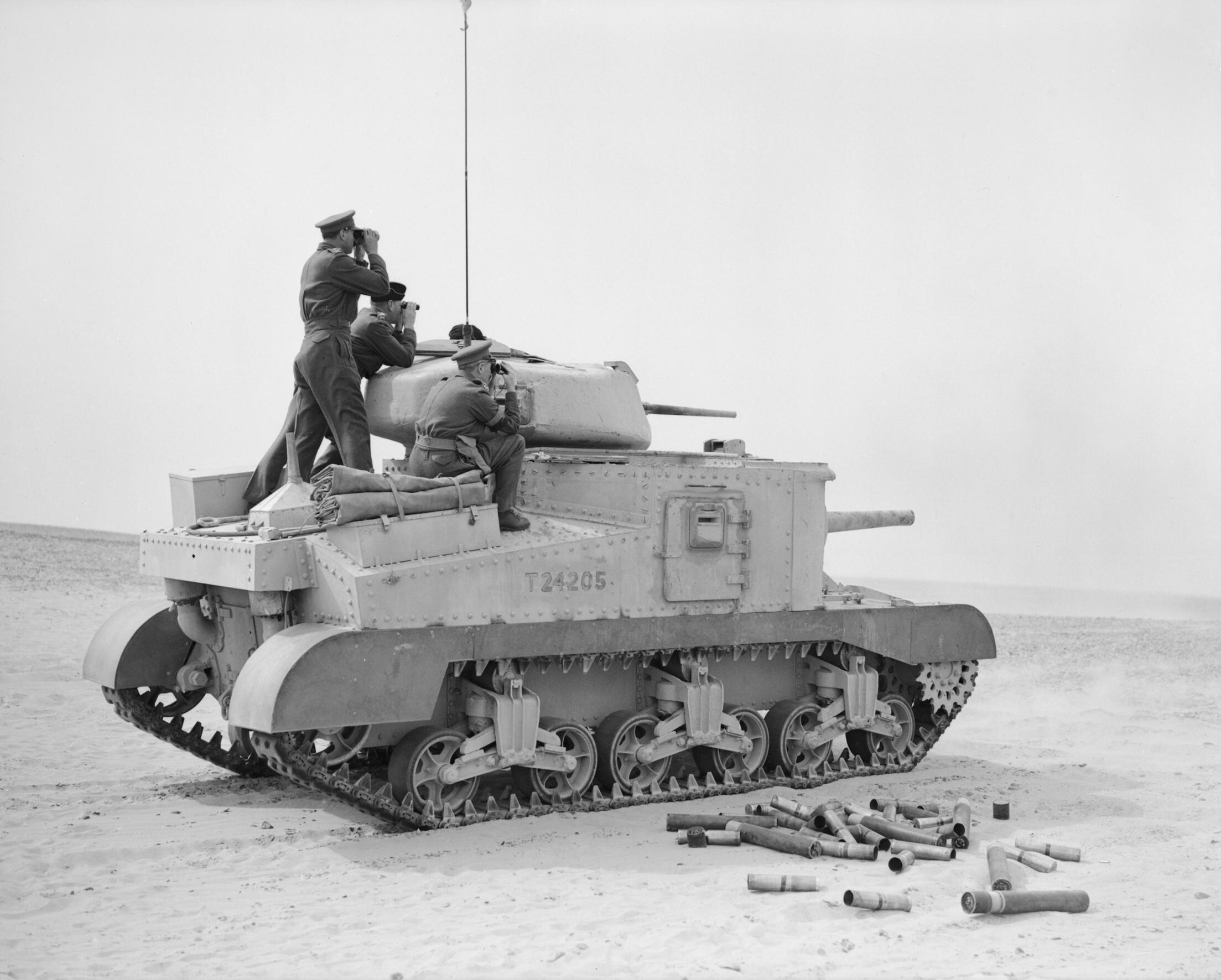 The British Army in North Africa 1942 The Commander in Chief, General Sir Claude Auchinleck, (farthest from the camera) and Major General Campbell, VC, standing on a Grant tank, watching as it fires at a practise target in the Western Desert, 17 February 1942.